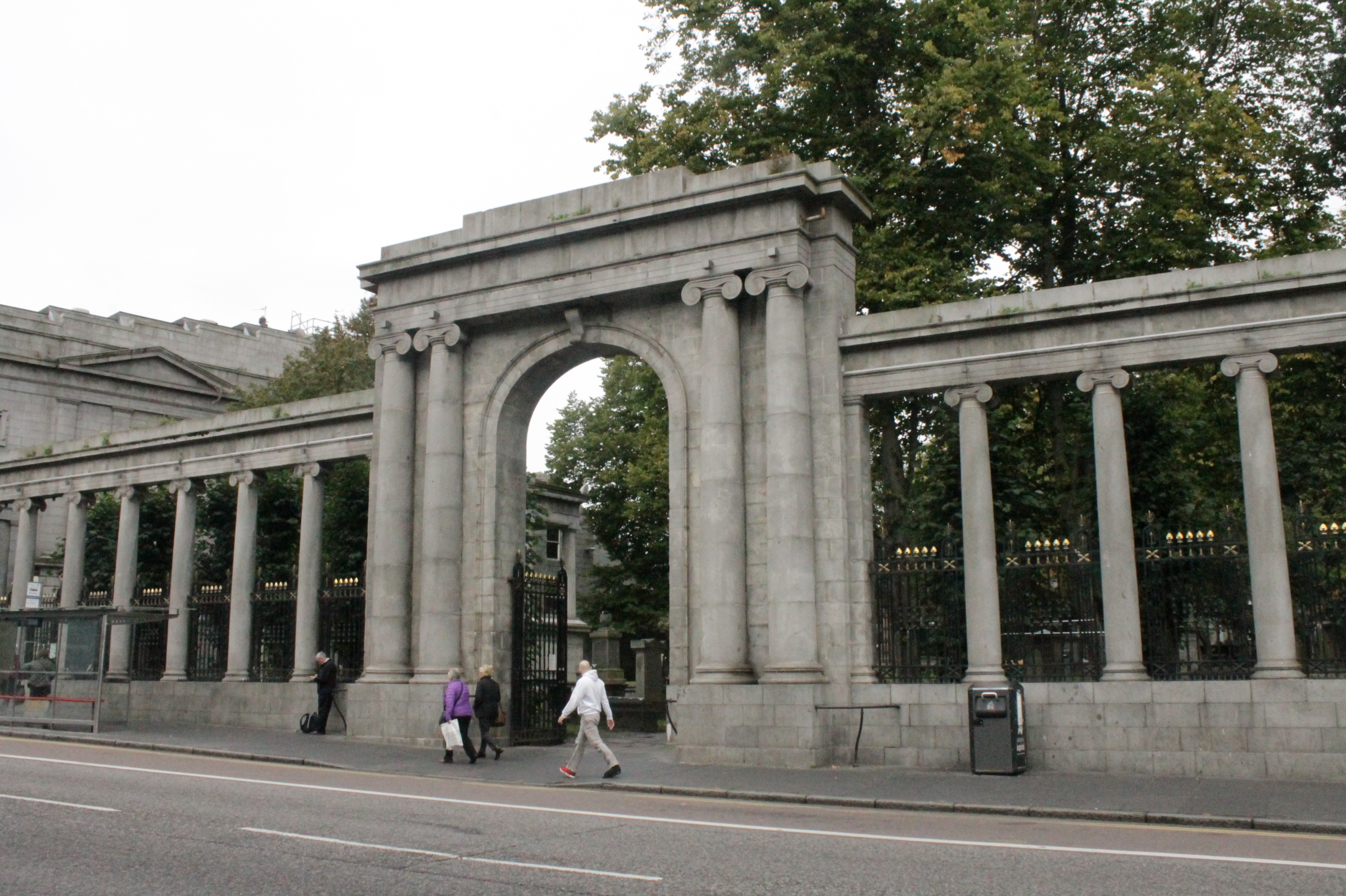 The southern boundary of the churchyard to the Kirk of St Nicholas, Union Street, Aberdeen